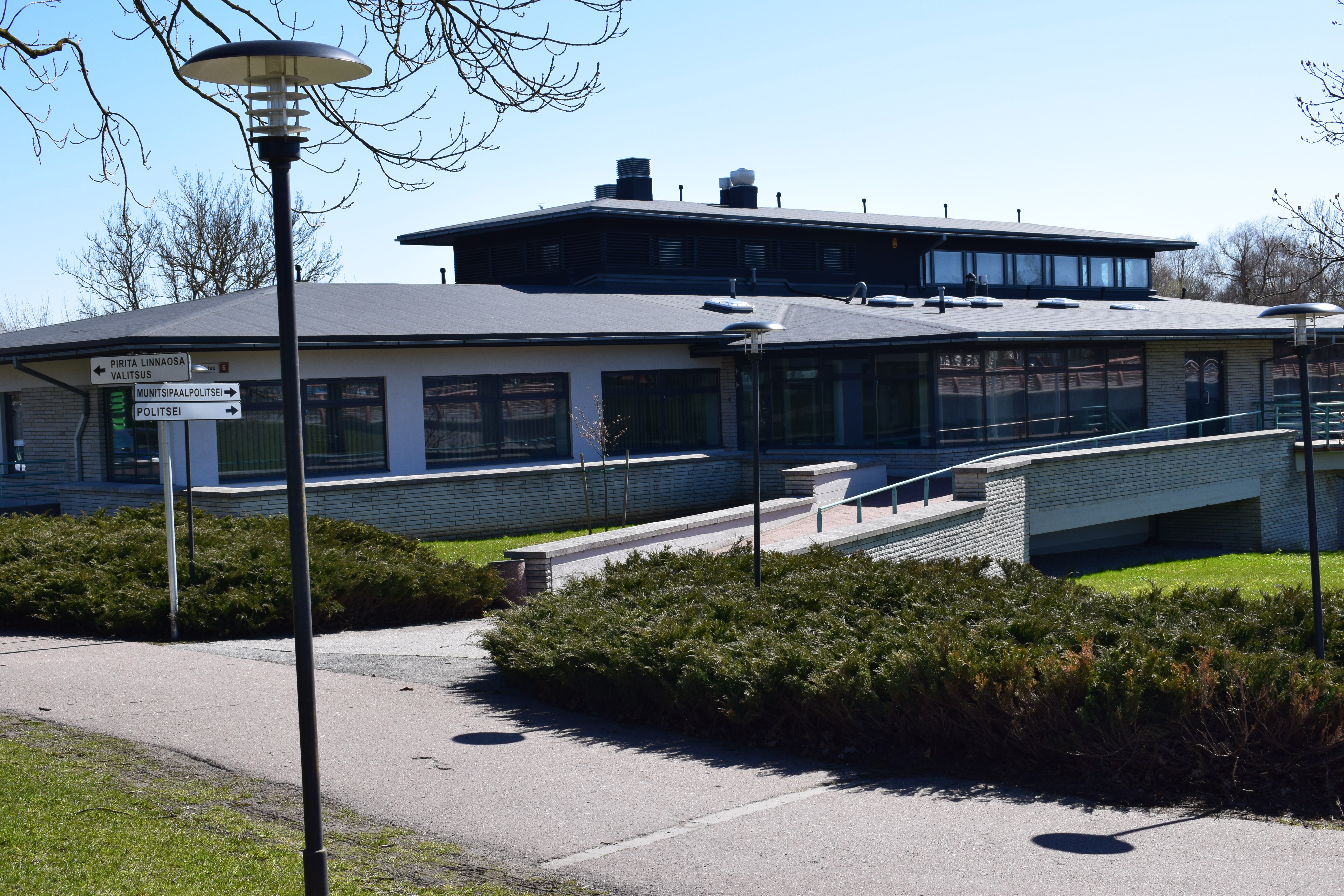 Pirita District Administration